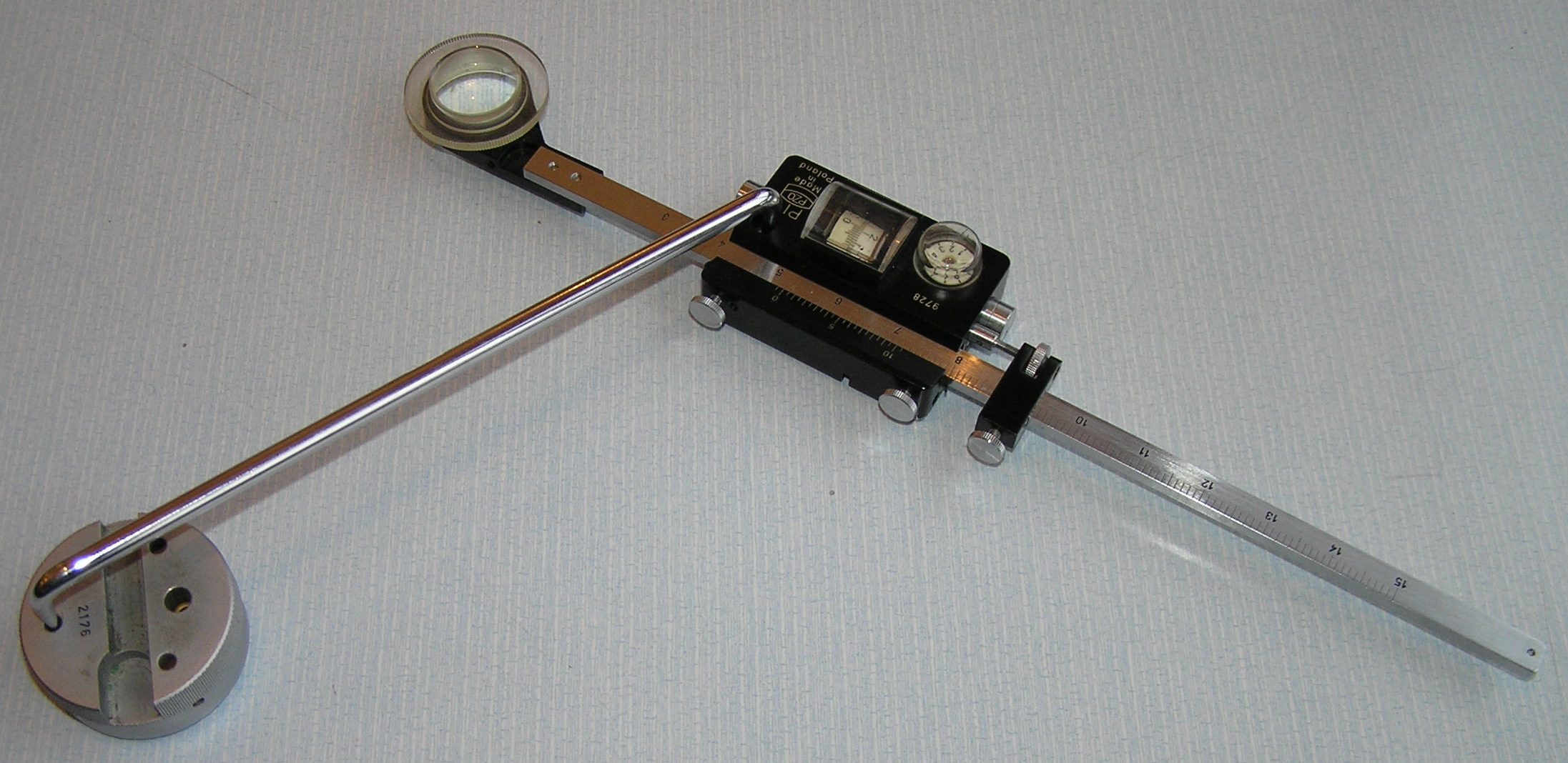 Planimeter